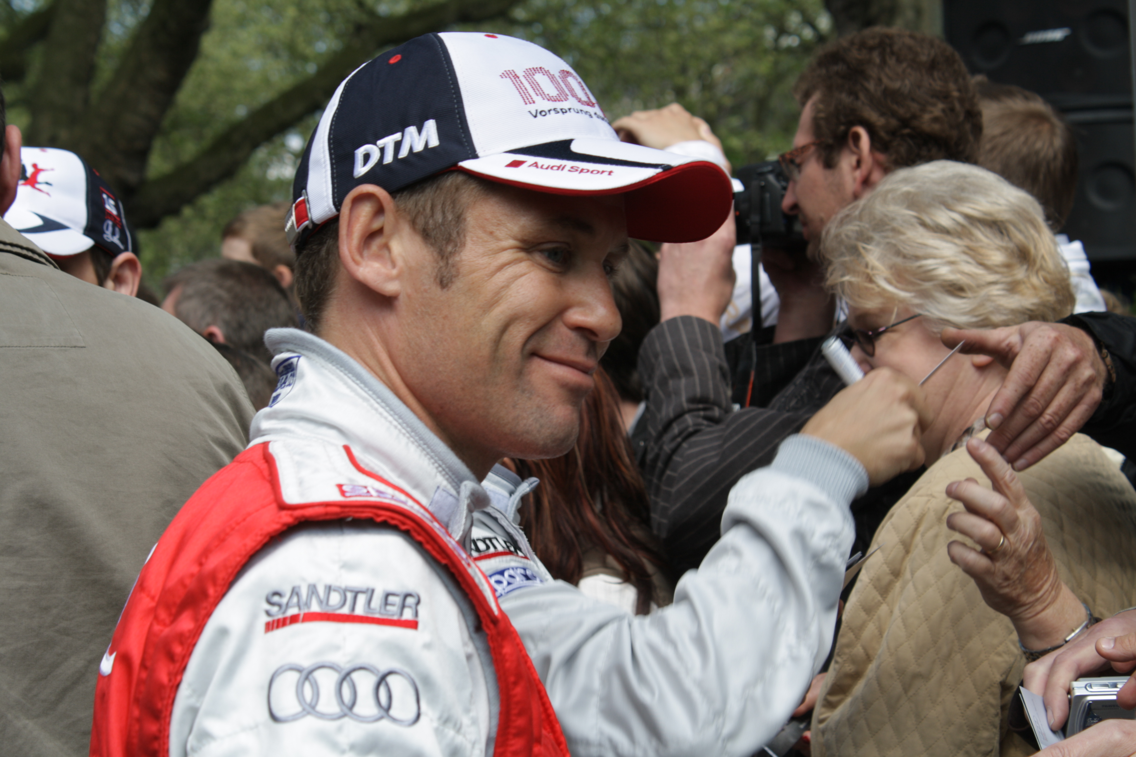 Tom Kristensen (DTM presentation in Düsseldorf (Germany))